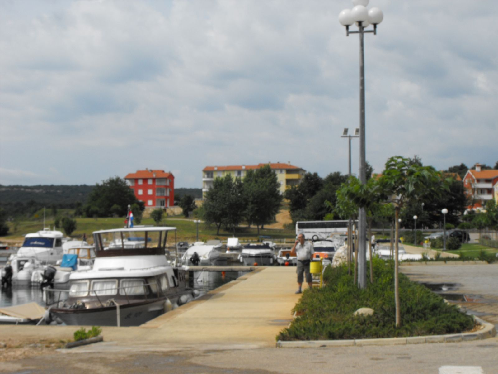 Čižići port. Settlement in the municipality of Dobrinj, island of Krk.